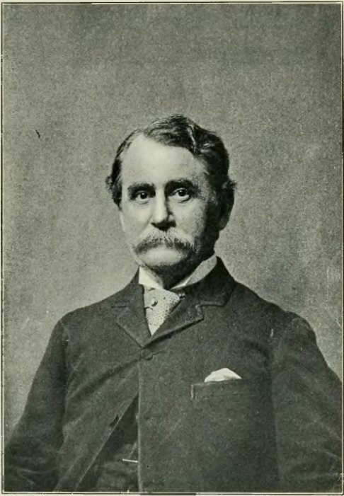 Portrait in History of Iowa From the Earliest Times to the Beginning of the Twentieth Century